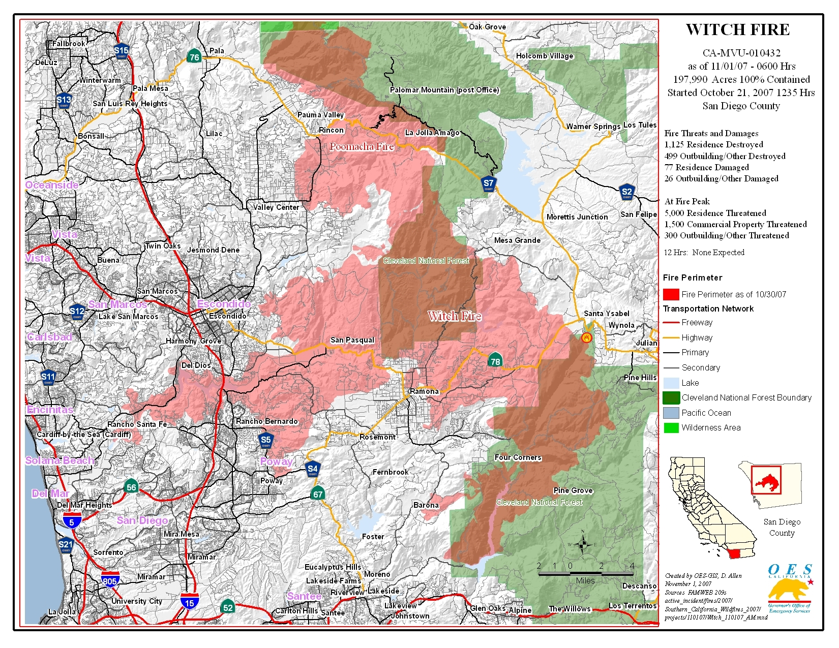 A map of the burn area of the Witch Creek Fire, on October 30, 2007. By this time, the Witch Creek Fire had already merged with the Poomacha Fire to the north, and the much smaller McCoy Fire to the southeast (in Julian, Sian Diego). The Witch Creek Fire's origin point in eastern San Diego County has been marked on the map.